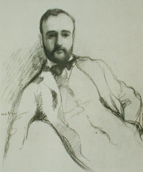 Portrai_of_John_Davidson (1857-1909) by_William_Rothenstein